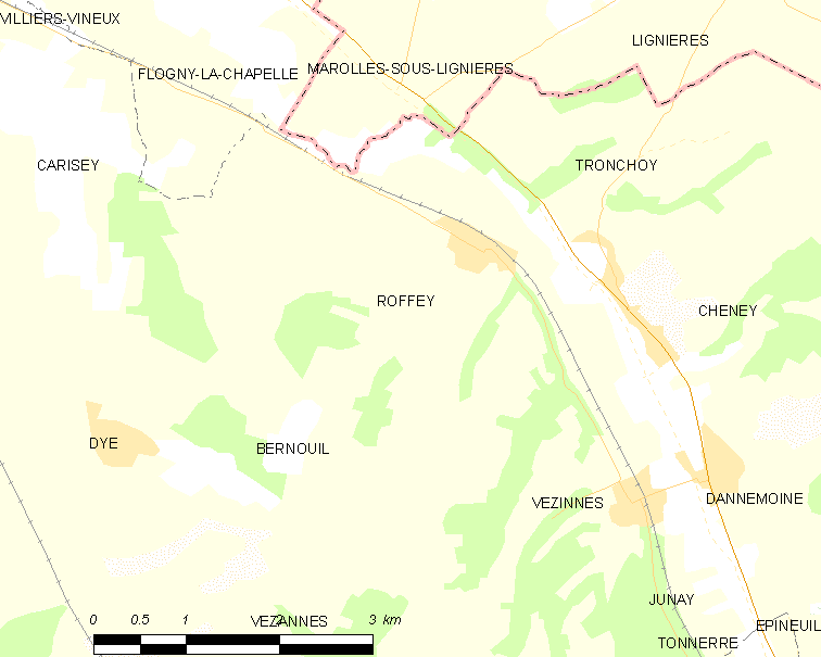 Map of French municipality Roffey